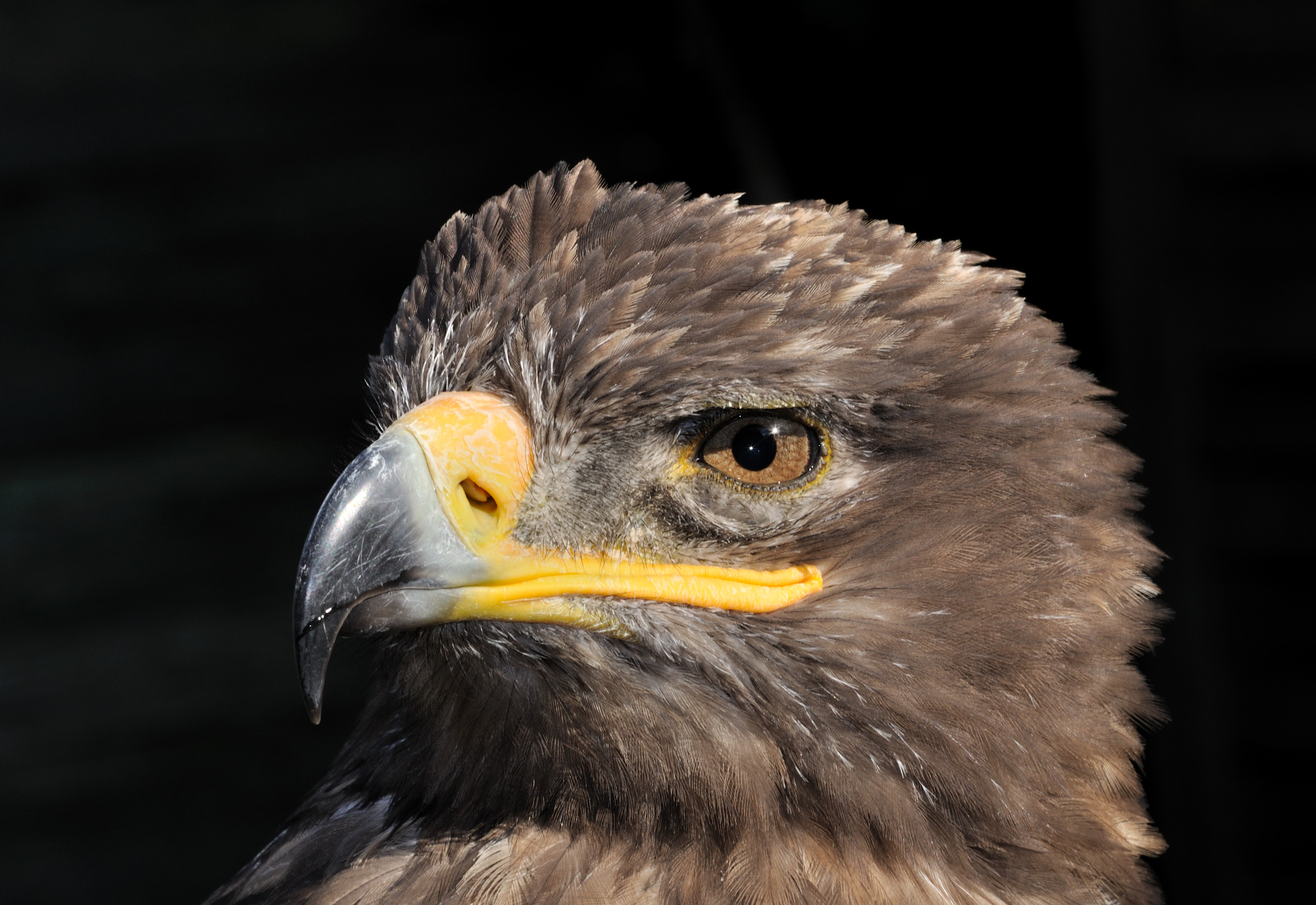 Steppe Eagle (Aquila nipalensis orientalis) in the falconry Falkenhof Feldberg, Germany.